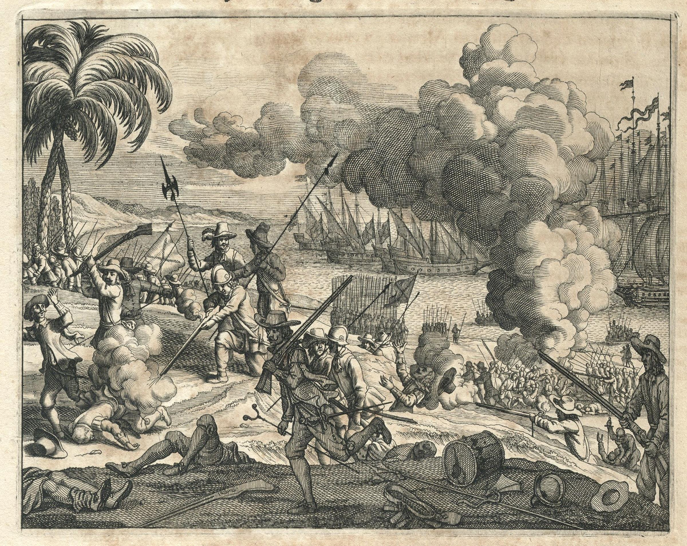 The Dutch conquest of the island of Mannaar under Van Goens' leadership in 1658. The plate shows the Dutch making landfall and storming the island, which was in Portuguese hands. Mannaar was strategically situated and had pearl banks.